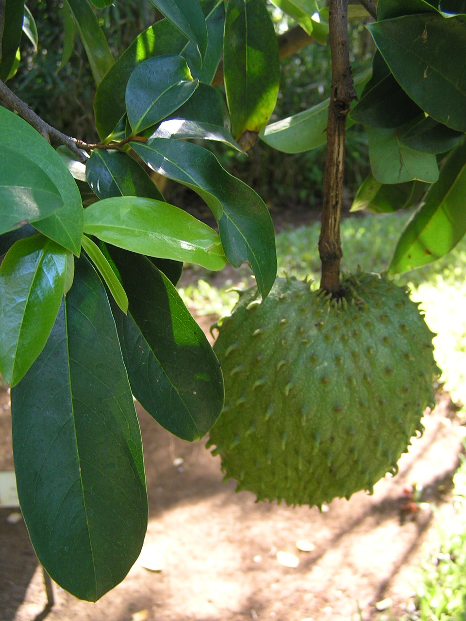 Soursop fruit (Annona muricata). Photograph taken at the Jardin d'Éden botanical park, Saint-Gilles les Bains (commune of Saint-Paul), Réunion Island (Indian Ocean, a part of the French Republic).